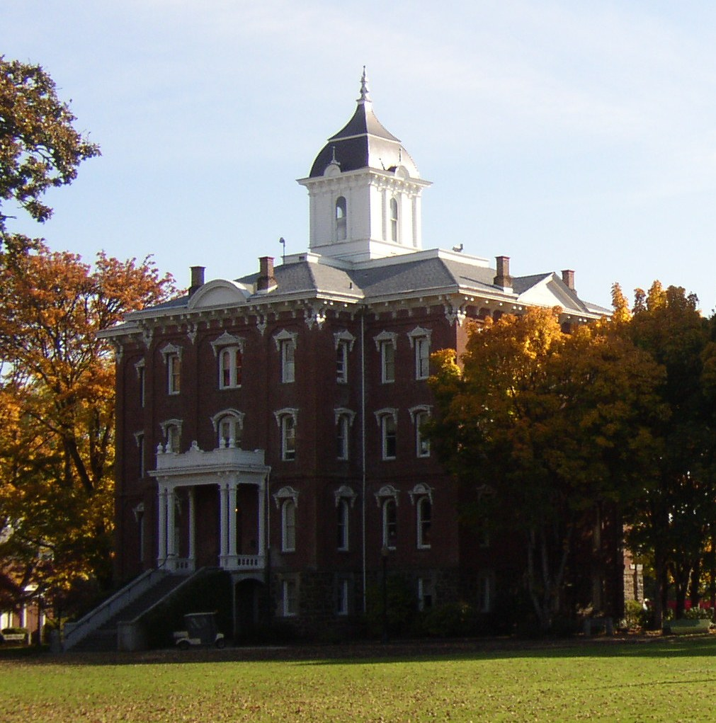 Pioneer Hall at Linfield College, McMinnville, Oregon. Taken from the northwest.